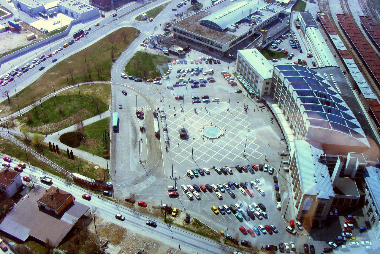 Sarajevo city view from the Avaz Tower cafe on floor 35 Sarajevo Train Station BiH in April 2011